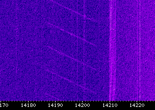 This image depicts the signal received from a CODAR source, centered on approximately 14195 kHz, on a software-defined radio's waterfall display. The CODAR signal is the repeating, sweeping, top left-to-bottom right signal. The bright signals to the right are unrelated.